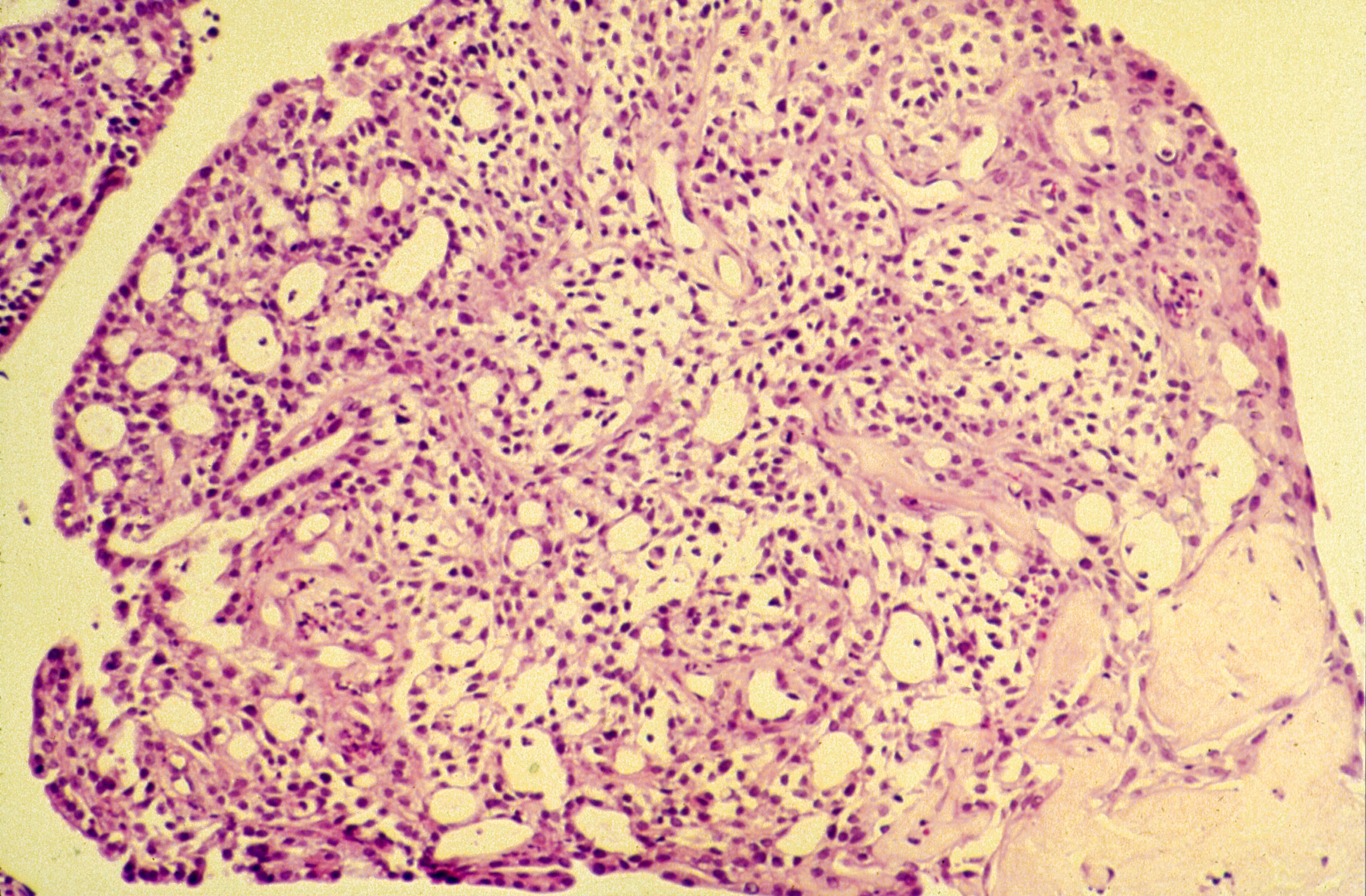 Title Diethylstilbestrol (DES) Cervix Description Nests of metaplastic squamous cells in microglandular hyperplasis. Topics/Categories Anatomy -- Gynecologic Cancer Types -- Cervical Cancer Cells or Tissue -- Abnormal Cells or Tissue Type Color, Photo Source National Cancer Institute